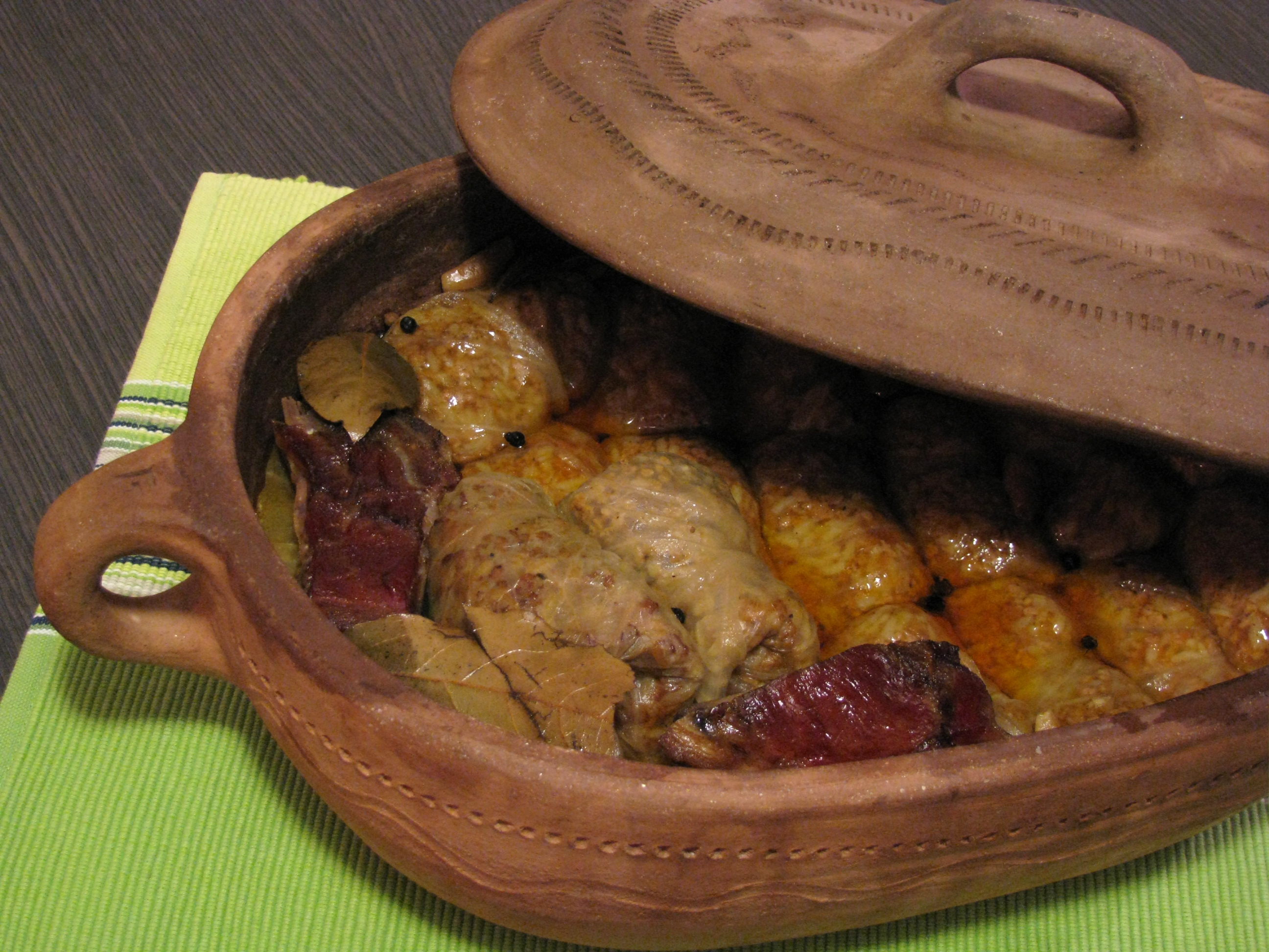 Serbian Sarma, a national speciality, made of chopped meat with cabbage leaves and cooked in traditional pottery. Image taken in Belgrade, Serbia.